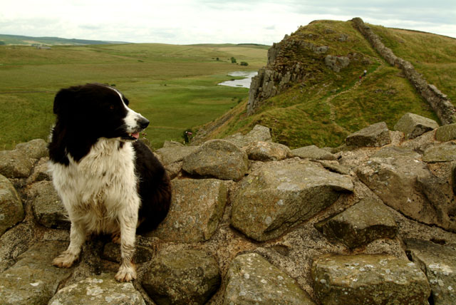 Photograph of Hadrian's Wall taken by Mark Burnett